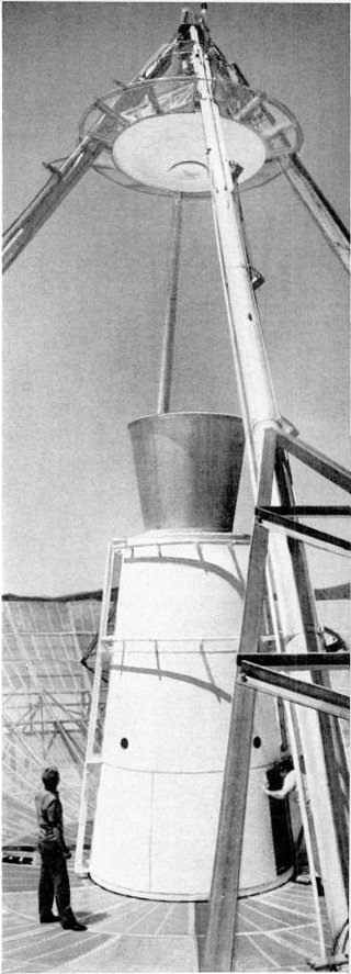 Feed horn and secondary reflector of 85 ft Cassegrain antenna at Goldstone Deep Space Communications Complex, California in 1963. This is a view from the bottom of the 85 ft diameter dish antenna, which is facing up, showing the feed. The radio waves from the spacecraft reflect off the dish to the small convex secondary reflector supported on the booms at top, then are reflected into the exponential feed horn inside the white pillar. where they are conducted through a waveguide to the receiver.